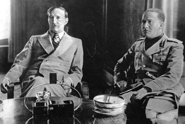 King Zog of Albania and Gian Galeazzo Ciano, Italian foreign minister.